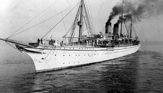 Edited version of File:Empress of Japan BCA b 03291.gif : Watermark removed, cropped and re-compressed as jpeg. RMS Empress of Japan at Vancouver, c.1915 BC Archives photo Available online from: CALL NUMBER: B-03291 Catalogue Number: HP033022 Geographic Region: GREATER VANCOUVER Title: "Empress of Japan at Vancouver BC". Photographer/Artist: Barrowclough, George Alfred Date: [ca. 1915] Accession Number: 193501-001